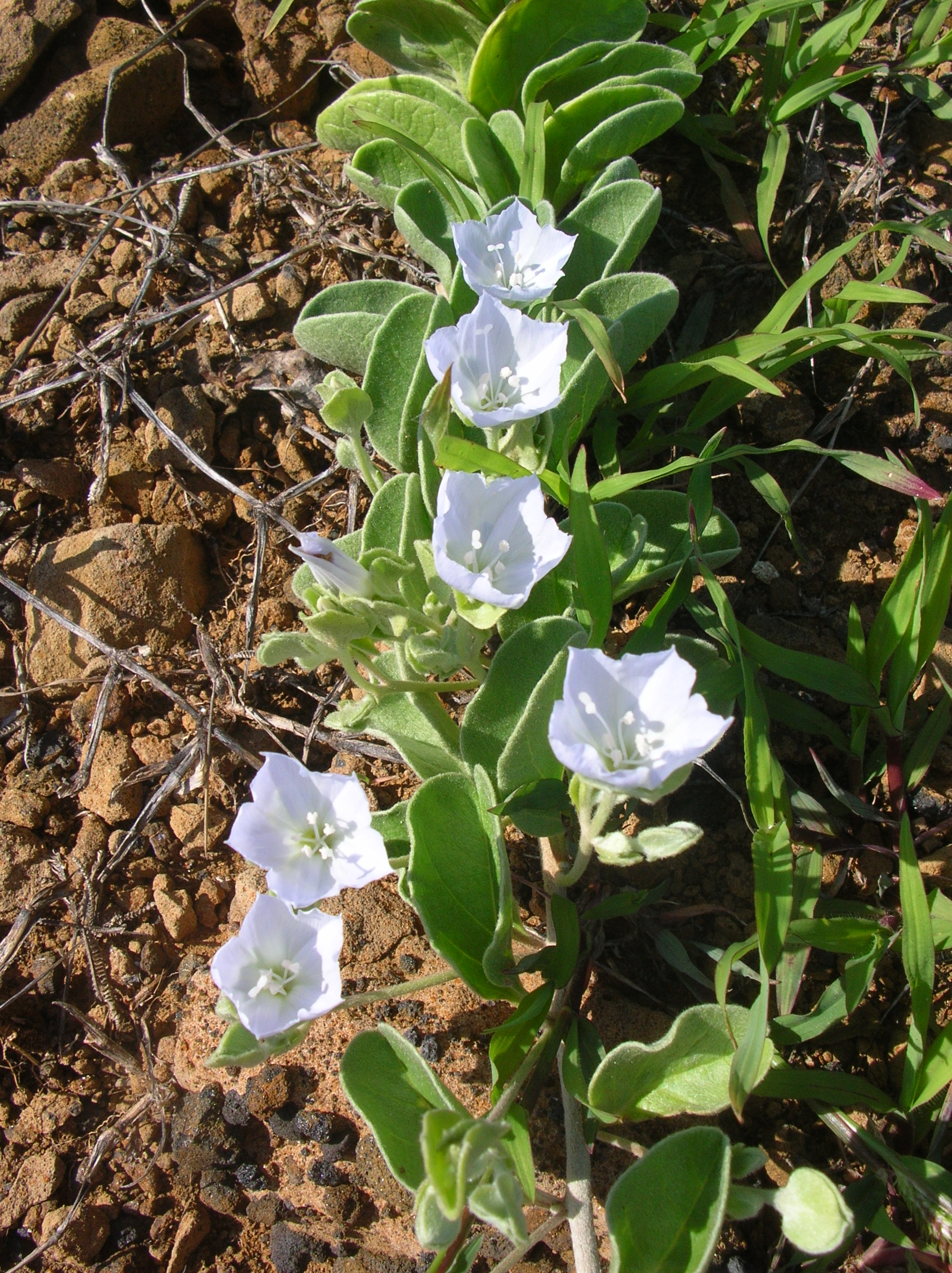 Jacquemontia ovalifolia subsp. sandwicensis (flowers). Location: Maui, Molokini